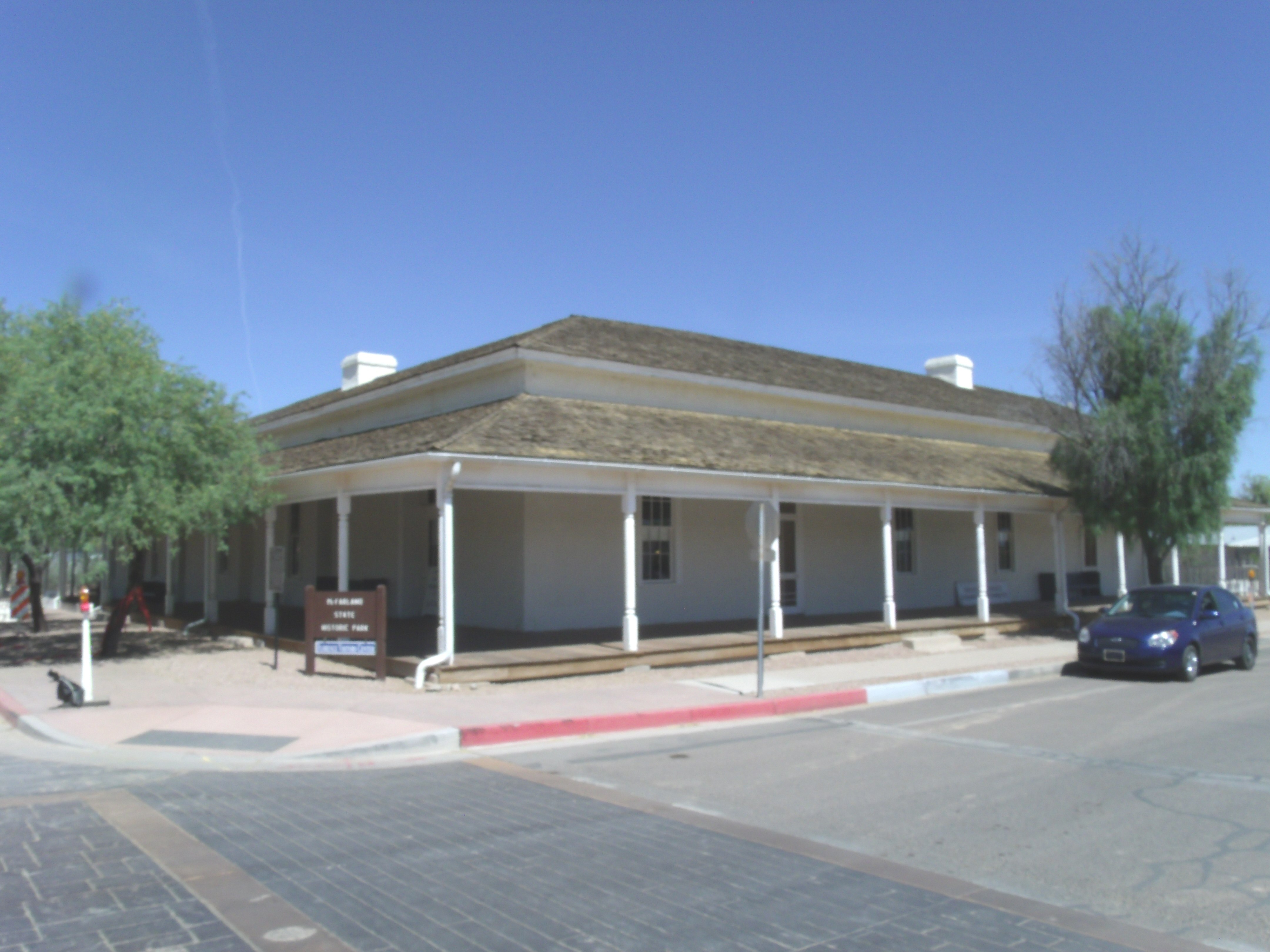 The First Pinal County Courthouse was built in 1876 and is located in W. 24 Ruggle St. in Florence, Arizona. Levi Ruggles designed and built this adobe building in 1878. The local “Vigilance Committee” stormed the sheriff’s office in this building in 1888, dragged two men from their cells and hanged them in the corridor of the jail. It served as a courthouse. Since then, it has functioned as a hospital, health center, home for the elderly and a museum. Listed in the National Register of Historic Places on July 30, 1974, reference #74000461.